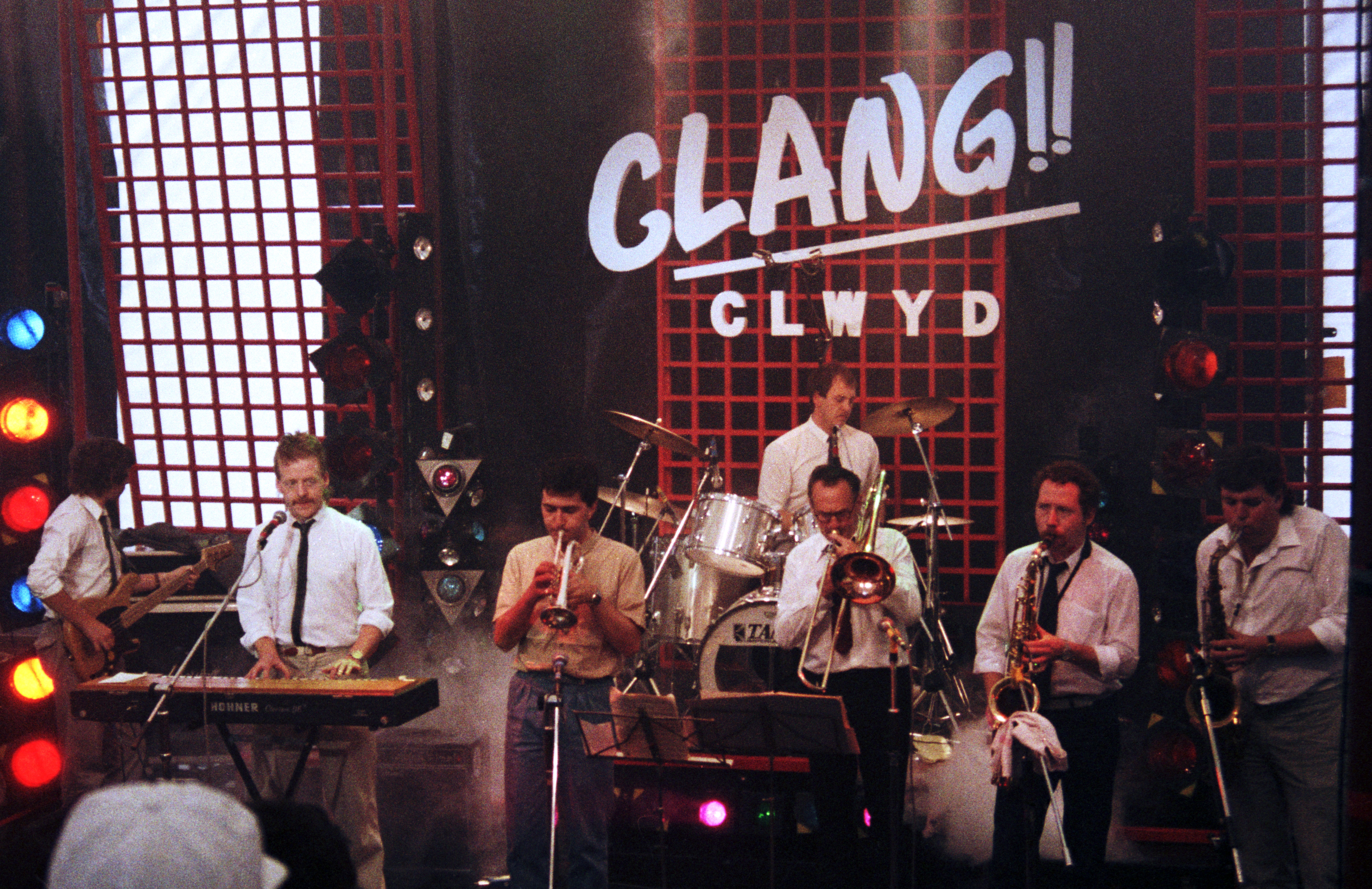 Geraint Lovgreen a'r Enw Da. Clang Clwyd concert, 1985. Image by Medwyn Jones